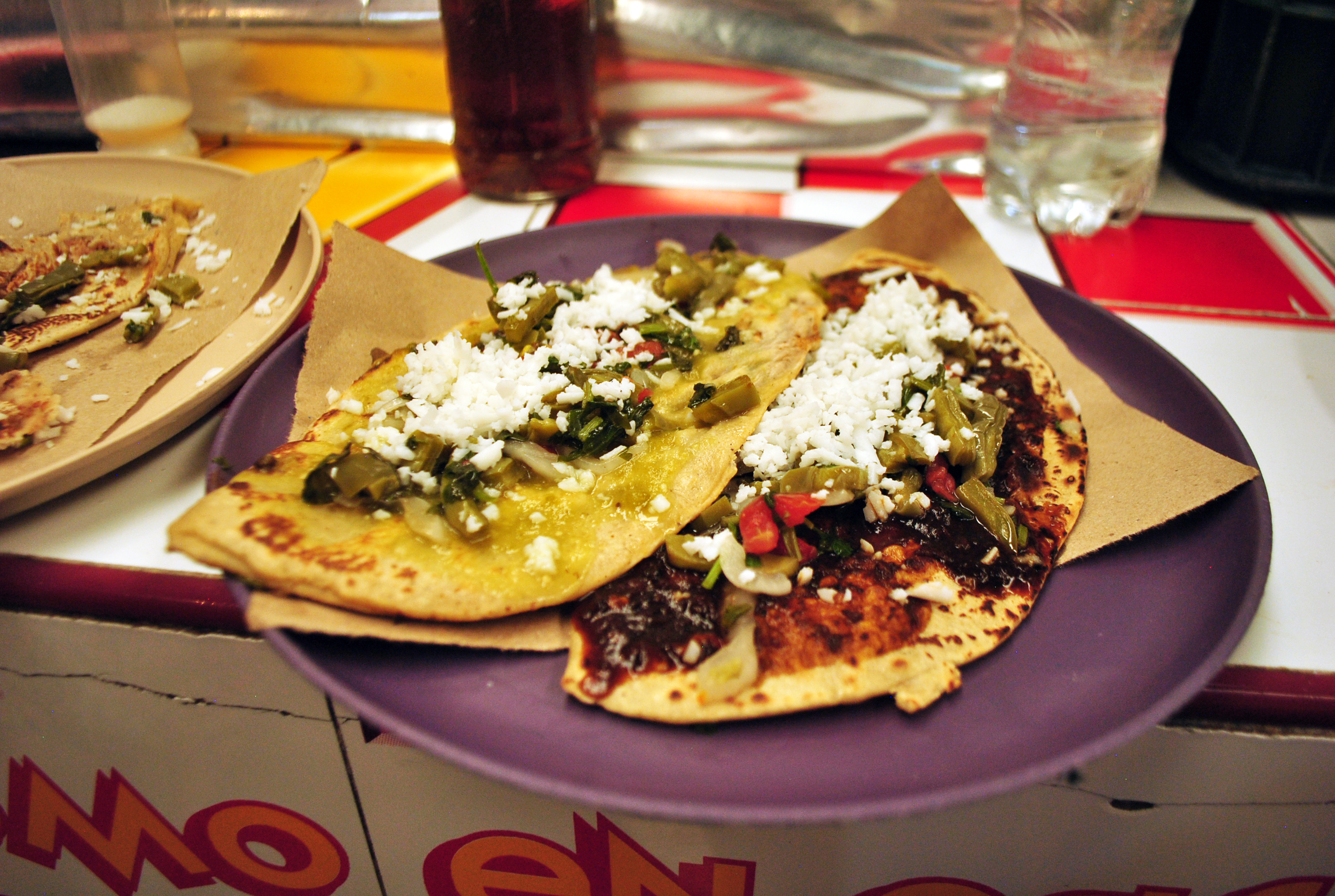 Tlacoyos in Mercado de Xochimilco, Mexico City.